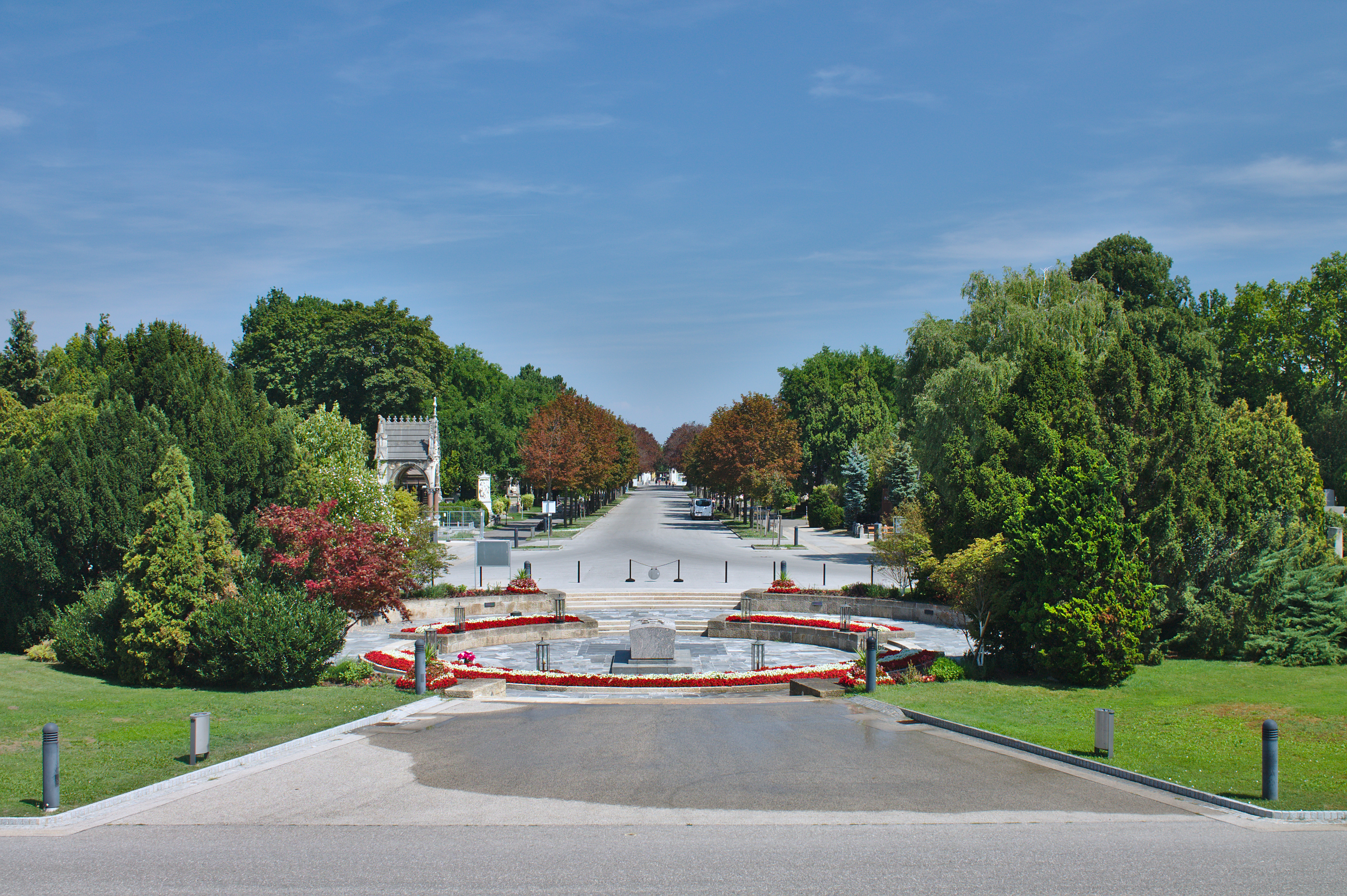 On the Central Cemtery [Zentralfriedhof] in Vienna: The Presidents' tomb [Präsidentengruft] in the foreground and gate #2 in the background, as seen from the St Charles Borromeo Church.